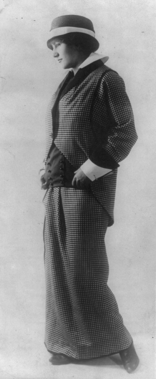 TITLE: [Women's fashions: Poiret check suit] CALL NUMBER: LOT 7177 [item] [P&P] Check for an online group record (may link to related items) REPRODUCTION NUMBER: LC-USZ62-56759 (b&w film copy neg.) No known restrictions on publication. MEDIUM: 1 photographic print. CREATED/PUBLISHED: [1914] NOTES: Photo by Bain News Service, N.Y.C. Title and other information transcribed from unverified, old caption card data and item. George Grantham Bain Collection (Library of Congress). Caption card tracings: PI--Works; Aviation; Fashions; Shelf. Poiret, Paul. REPOSITORY: Library of Congress Prints and Photographs Division Washington, D.C. 20540 USA DIGITAL ID: (b&w film copy neg.) cph 3b04592 CARD #: 2004682016